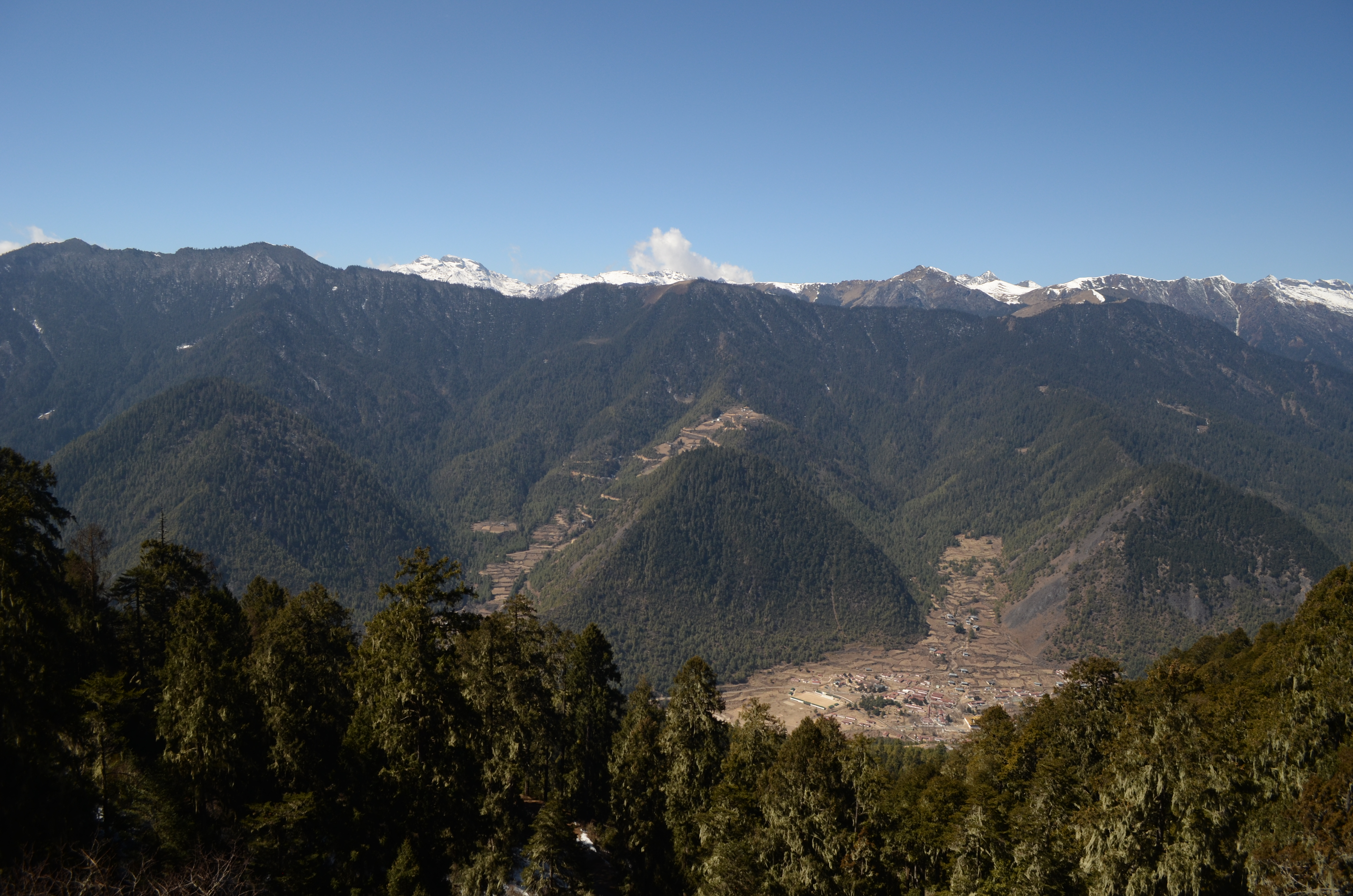 The three brother hills (Miri Punsum) of Haa. In local legend these hills represent the three great bodhisattvas, Mañjuśrī (l), Avalokiteśvara (c) and Vajrapāṇi (r).